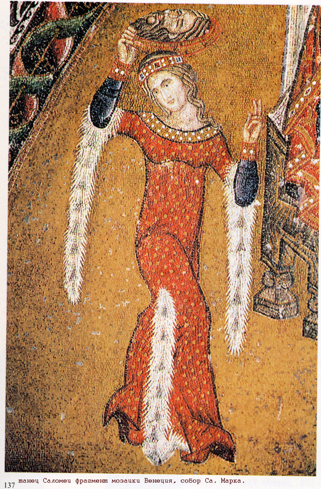 Танец Саломеи фрагмент мозаики. Венеция собор св. Марка.